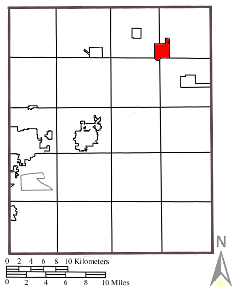 Map of Portage County, Ohio with the village of Garrettsville highlighted.